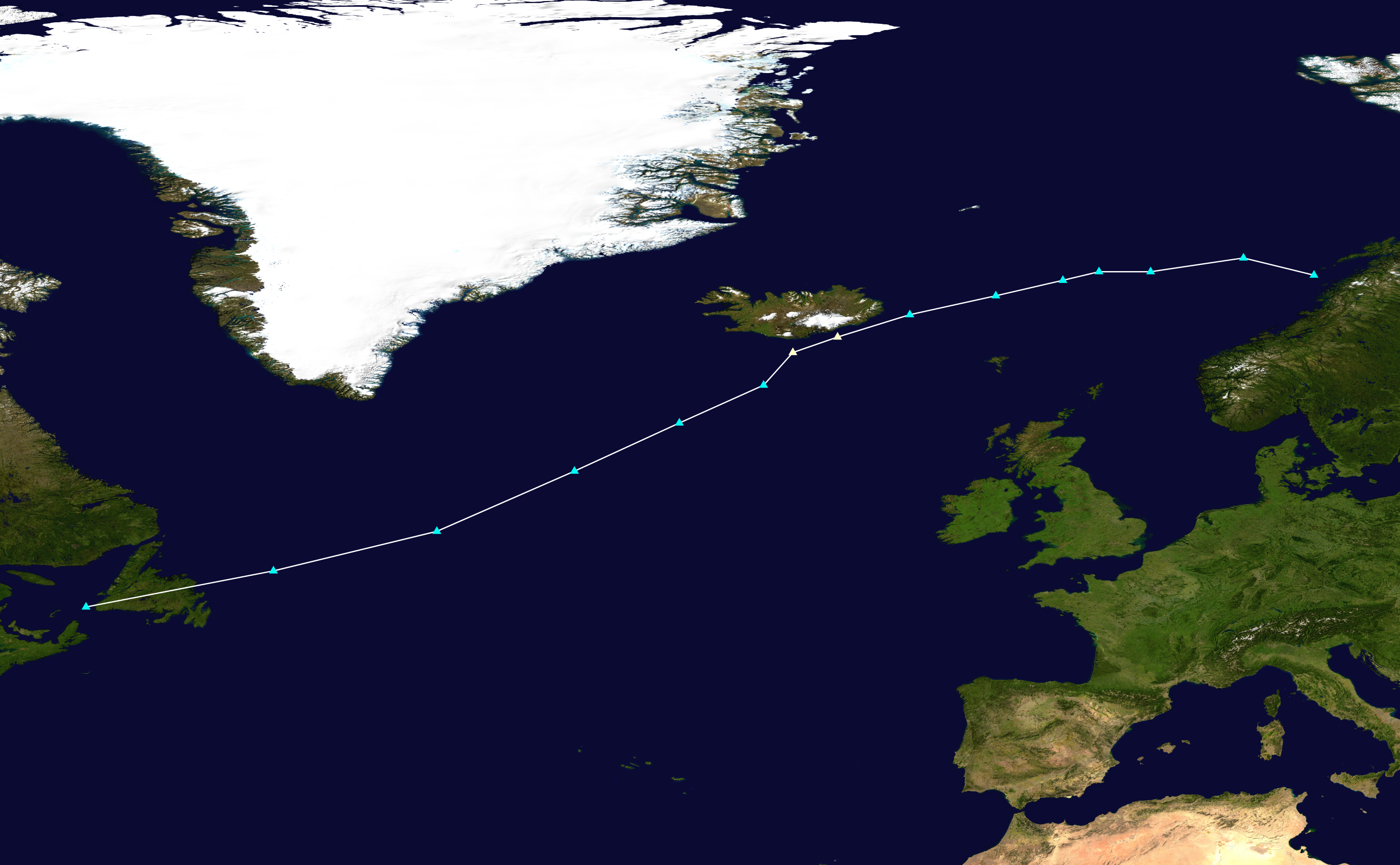 Track map of Storm Clodagh of the European windstorms of 2015}. The points show the location of the storm at 6-hour intervals. The colour represents the storm's maximum sustained wind speeds as classified in the Beaufort wind scale (see below). Beaufort scale 1-7≤38 mph≤62 km/h 8-11 (gale-force)39–73 mph63–118 km/h 12 (hurricane force)≥74 mph≥119 km/h Unknown